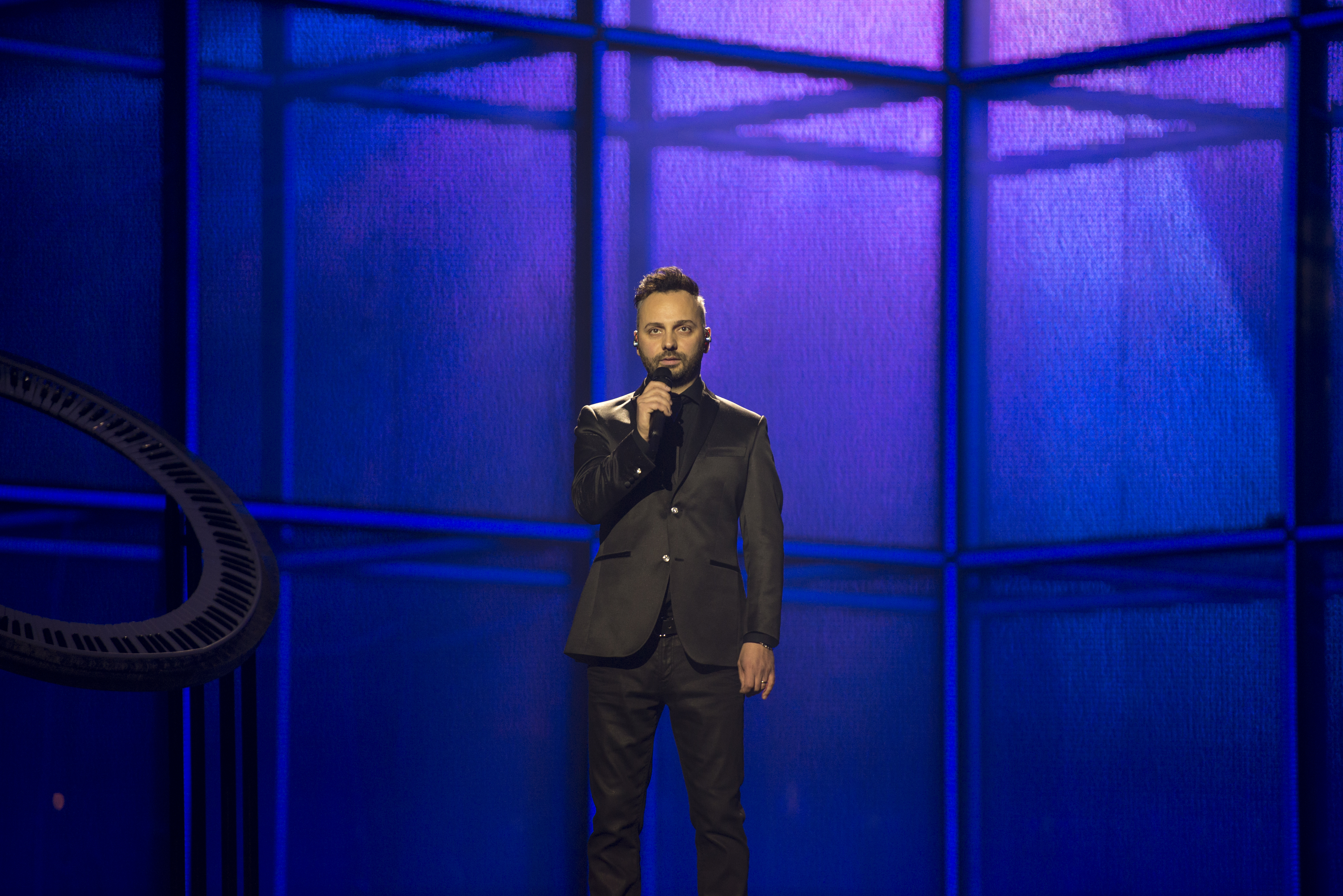 Paula Seling and Ovidiu Cernăuțeanu representing Romania with the song "Miracle" during the first dress rehearsal of the second semi final of the Eurovision Song Contest 2014 Copenhagen. (Help translate this text)